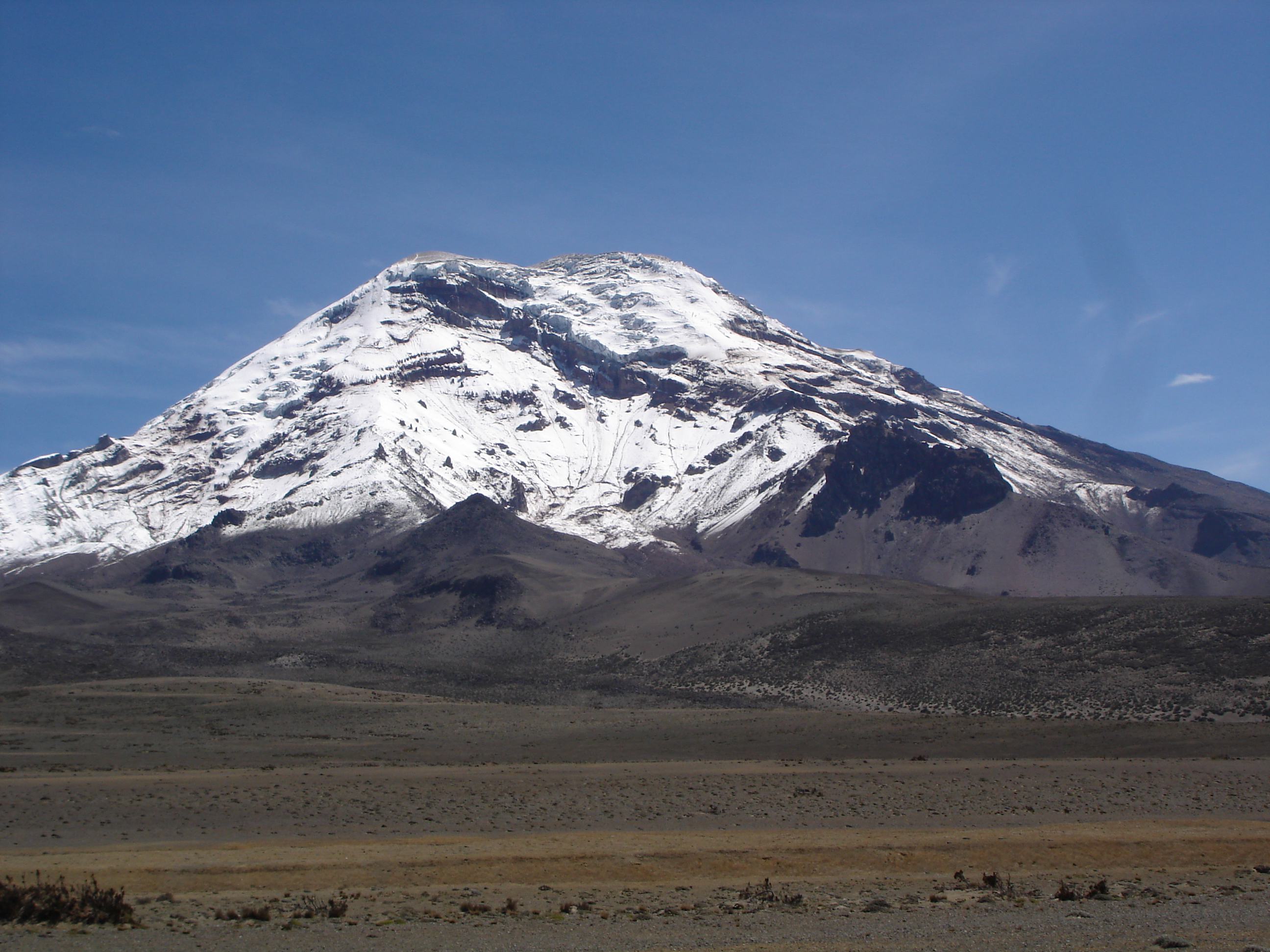 Chimborazo from the main road